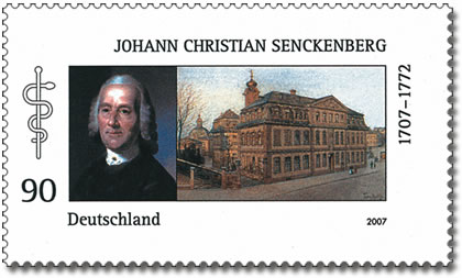 300th day of birth of Johann Christian Senckenberg (1707–1772) Ausgabepreis: 90 Cent